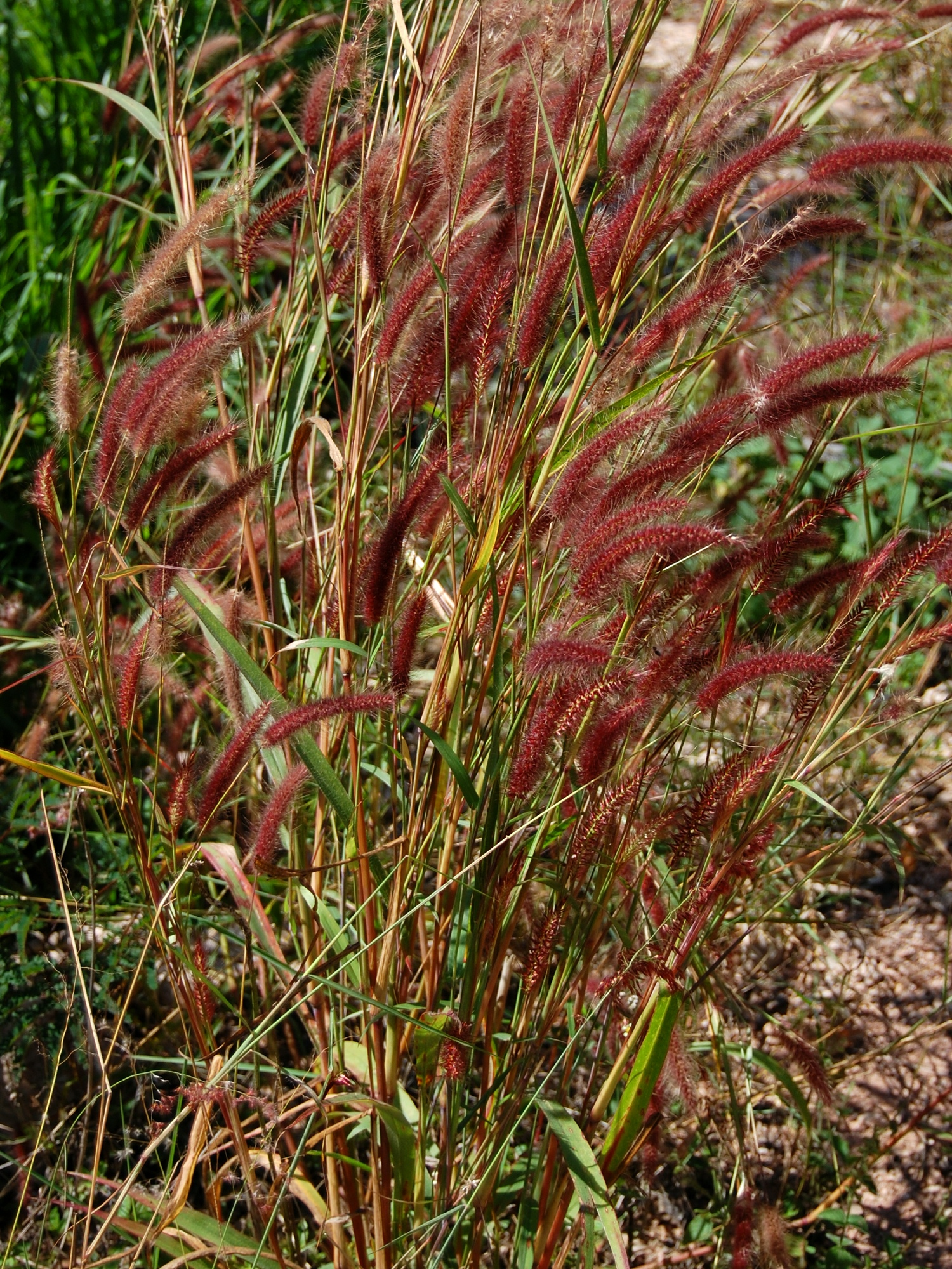 Mission grass, Pennisetum polystachion. From Ayotupas, West Timor, Indonesia.